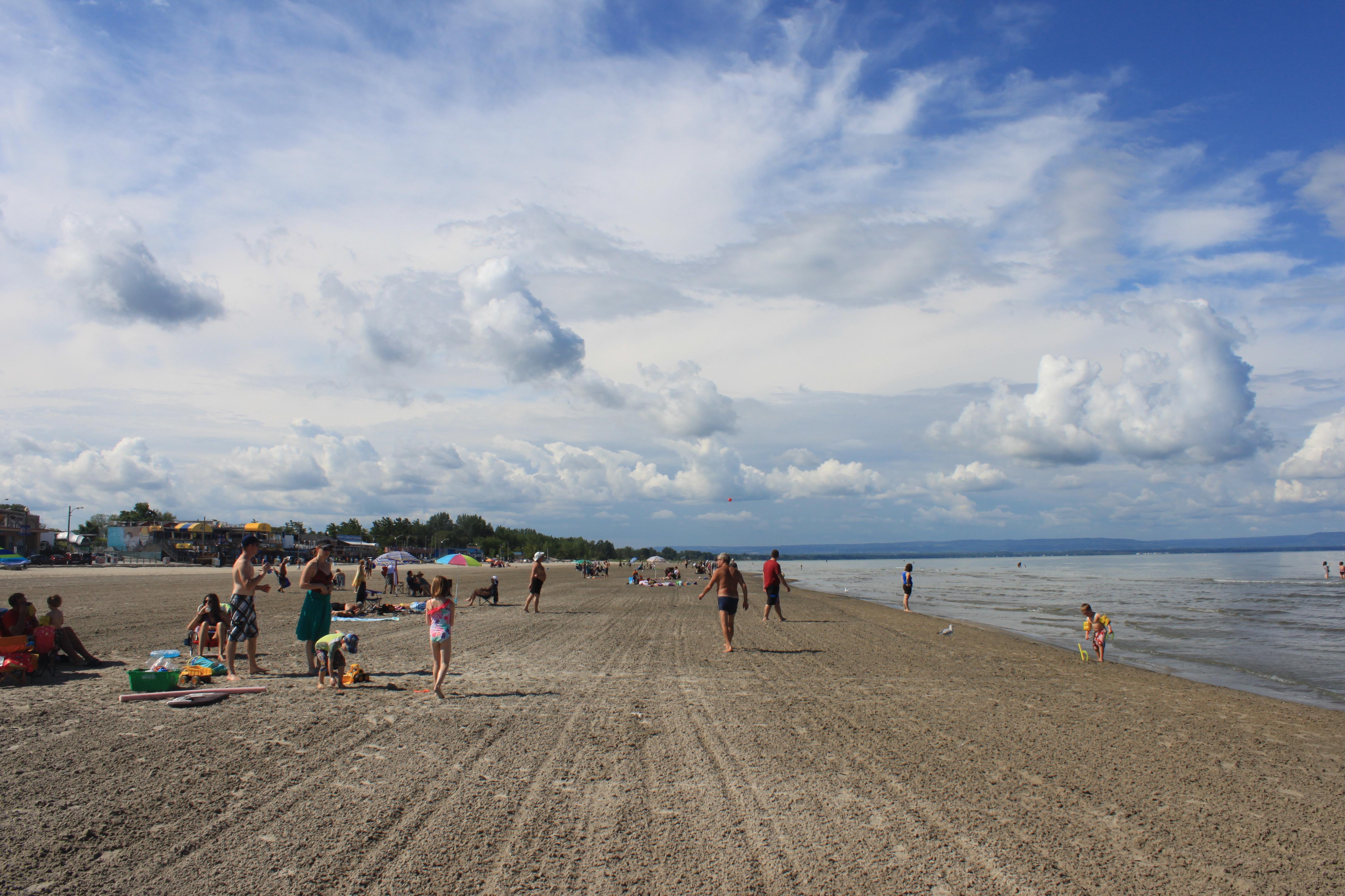 Wasaga Beach, Beach 1 Main Beach in summer